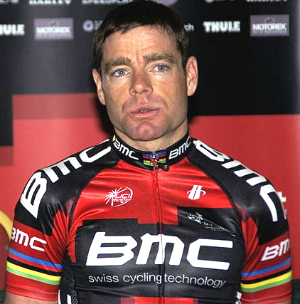 Cadel Evens during the presentation of the BMC Cycling team 2011 in Denia, Spain.